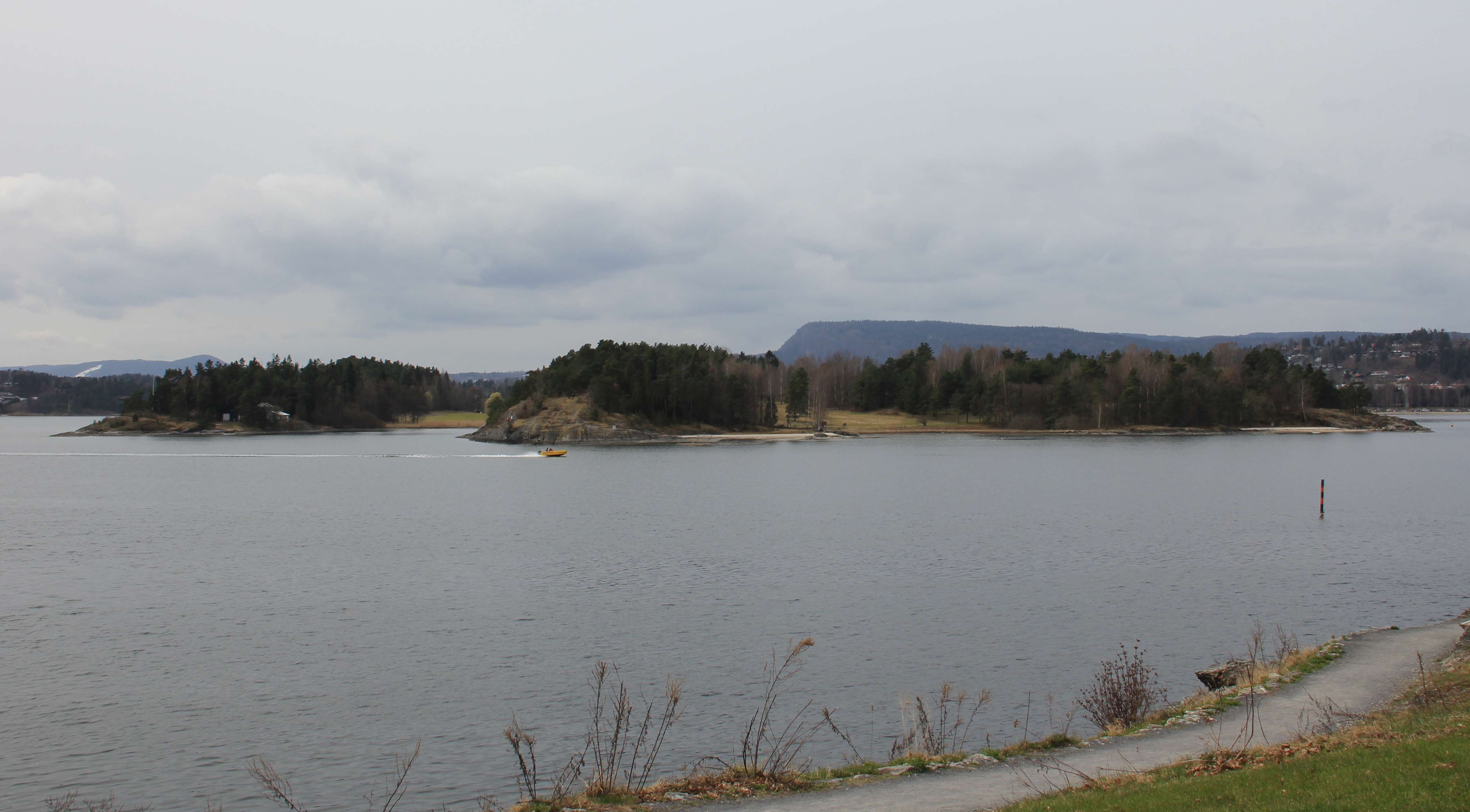 Kalvøya in Bærum seen from Høvikodden